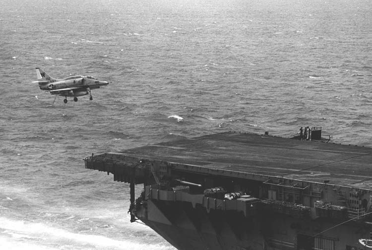 A Douglas A-4E Skyhawk (BuNo 151162) of attack squadron VA-94 Shrikes approaching the U.S. aircraft carrier USS Bon Homme Richard (CVA-31) in 1970. VA-94 was assigned to Attack Carrier Air Wing Five (CVW-5) for the last deployment of the Bon Homme Richard from 20 April to 12 November 1970 to Vietnam. Note the landing signal officers behind the screen on the port side of the flight deck.